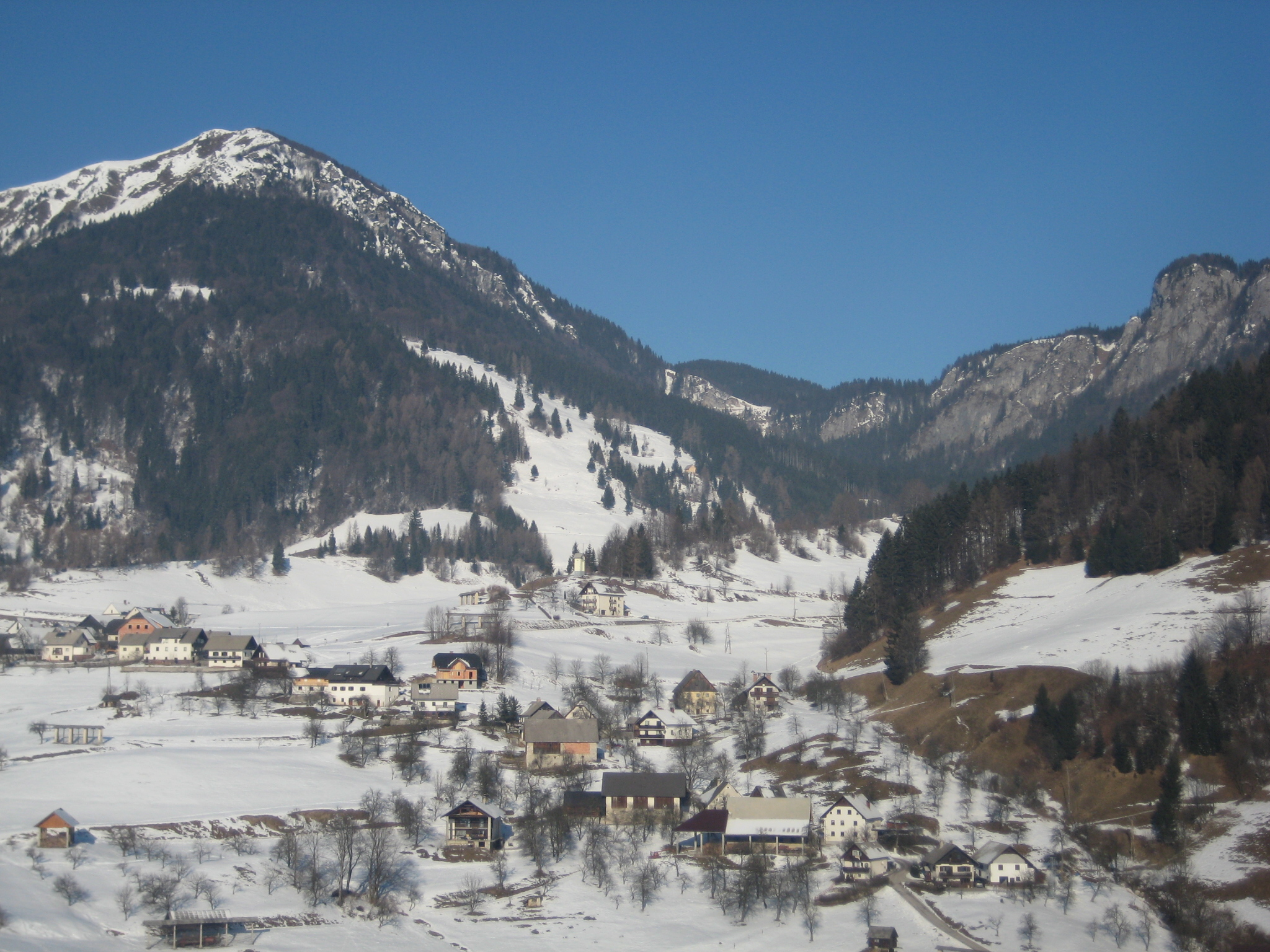 Villages Spodnja & Zgornja Sorica, Slovenia